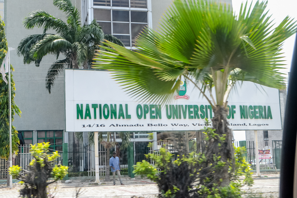 National Open University of Nigeria